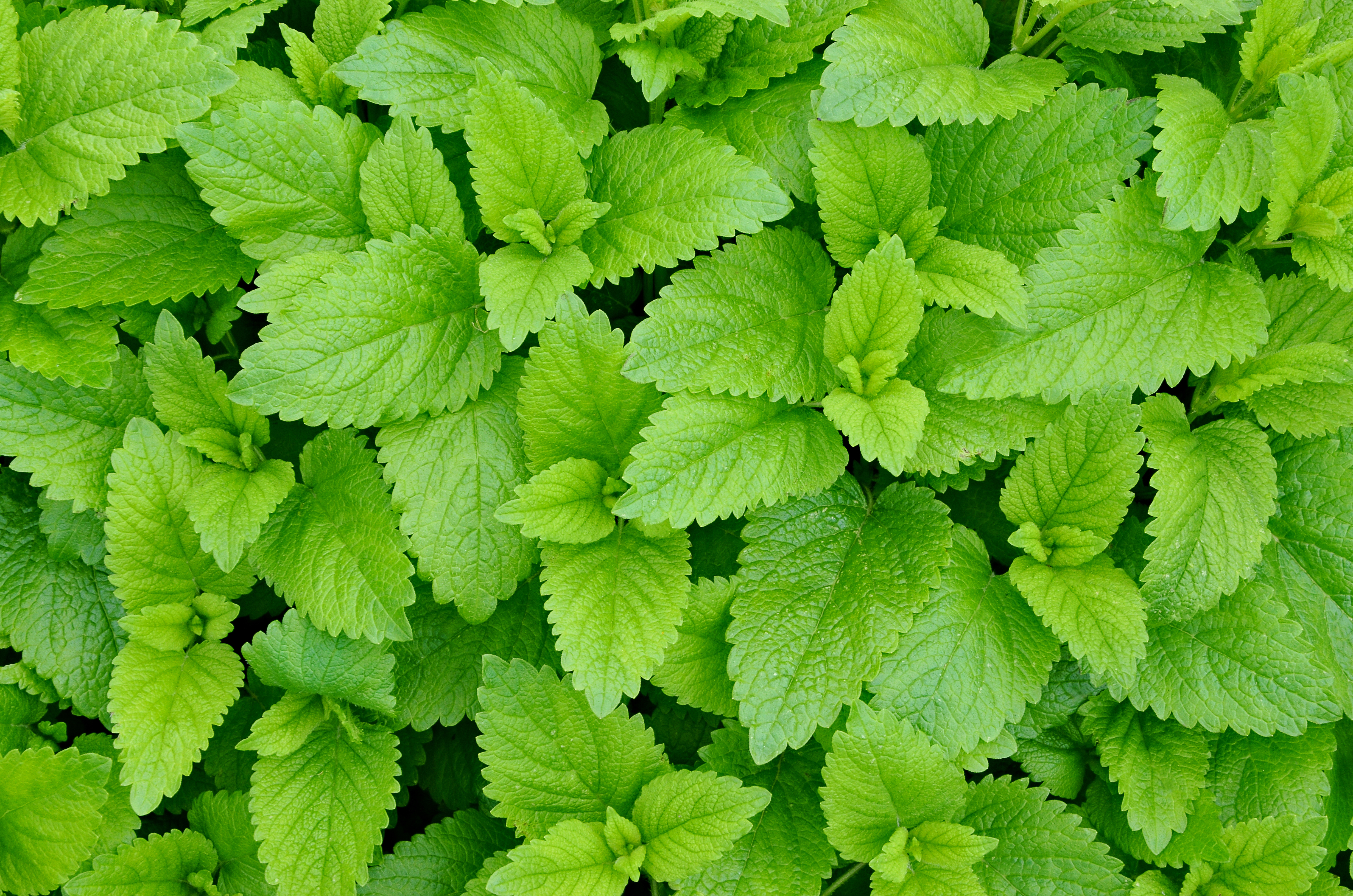 Lemon balm (Melissa officinalis), leaves, in a garden, France.